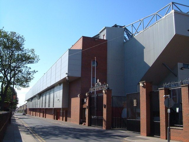 Anfield - Shankly Gates and Hillsborough memorial. A view southeast along Anfield Road past Liverpool's stadium. Above the Shankly Gates are the words "You'll never walk alone".